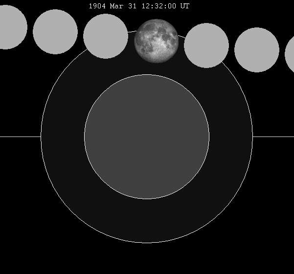 lunar eclipse chart of moon's penumbral lunar eclipse path through the earth's shadow. thumb